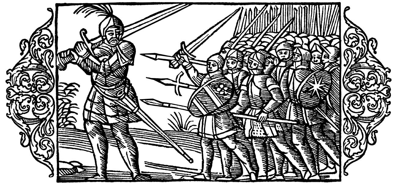 The woodcut illustrates the story tale how Starkaðr helped the Norwegian king Helge to fight against nine unjust fighters. From Olaus Magnus' "Historia de gentibus septentrionalibus".